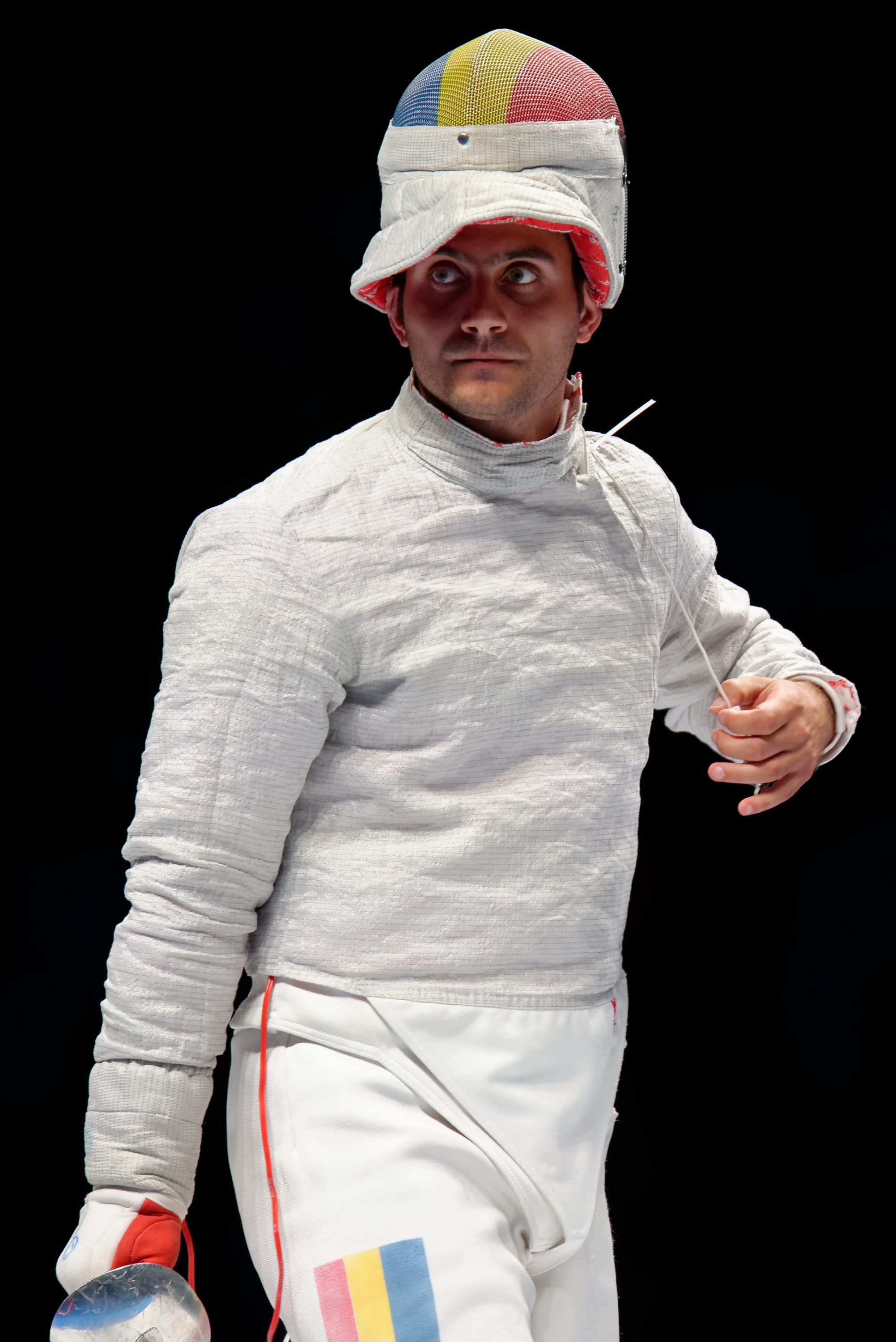 Romania's Tiberiu Dolniceanu at the semi-finals of the men's sabre event at the 2015 World Fencing Championships on 14 July 2014 at the Olympic Stadium in Moscow.